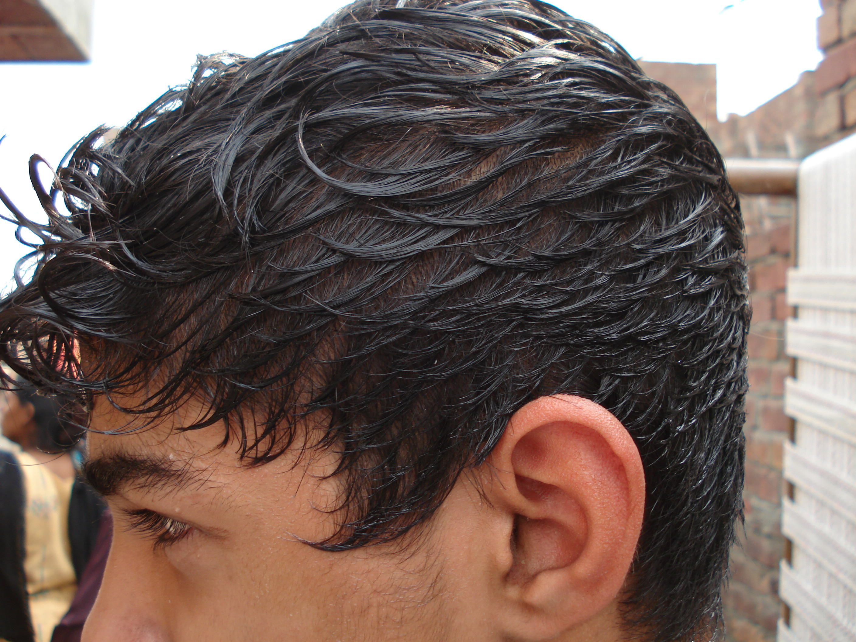 hair styling with hair gel